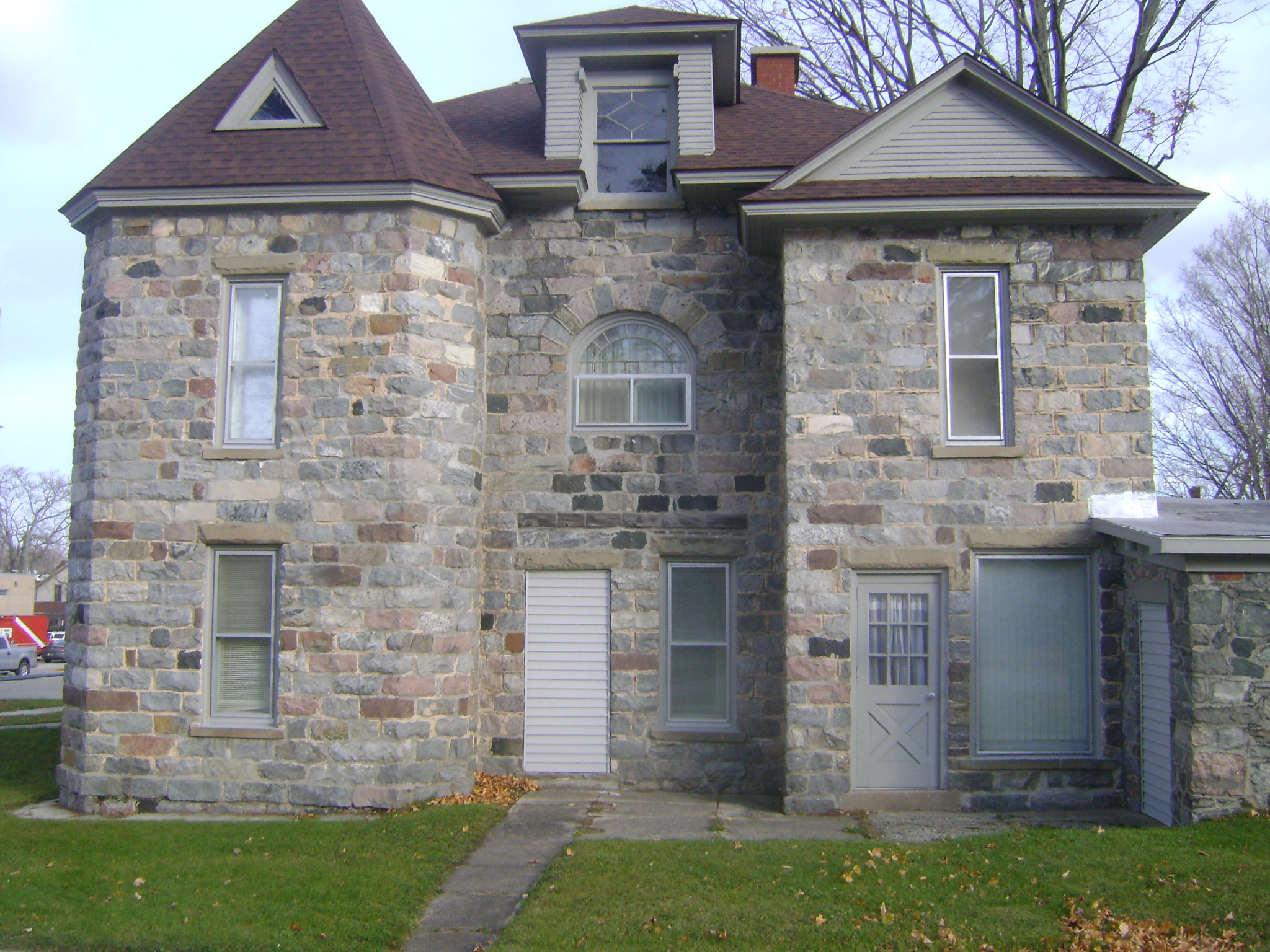 Chadwick-Munger house back